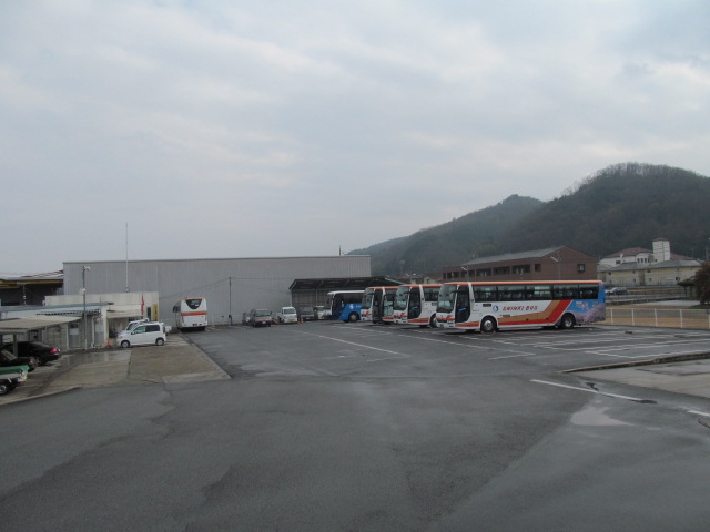 Shinki Bus Tsuyama Depot